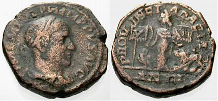 Dacia. Philip I. AE 28 mm. 16.6 g. IMP M IVL PHILIPPVS AVG. Laureate and draped bust right. PROVINCIA DACIA. Dacia standing left, lion and eagle at feet. AN III in exergue. From ebay auction, through . The source is CNG coins (